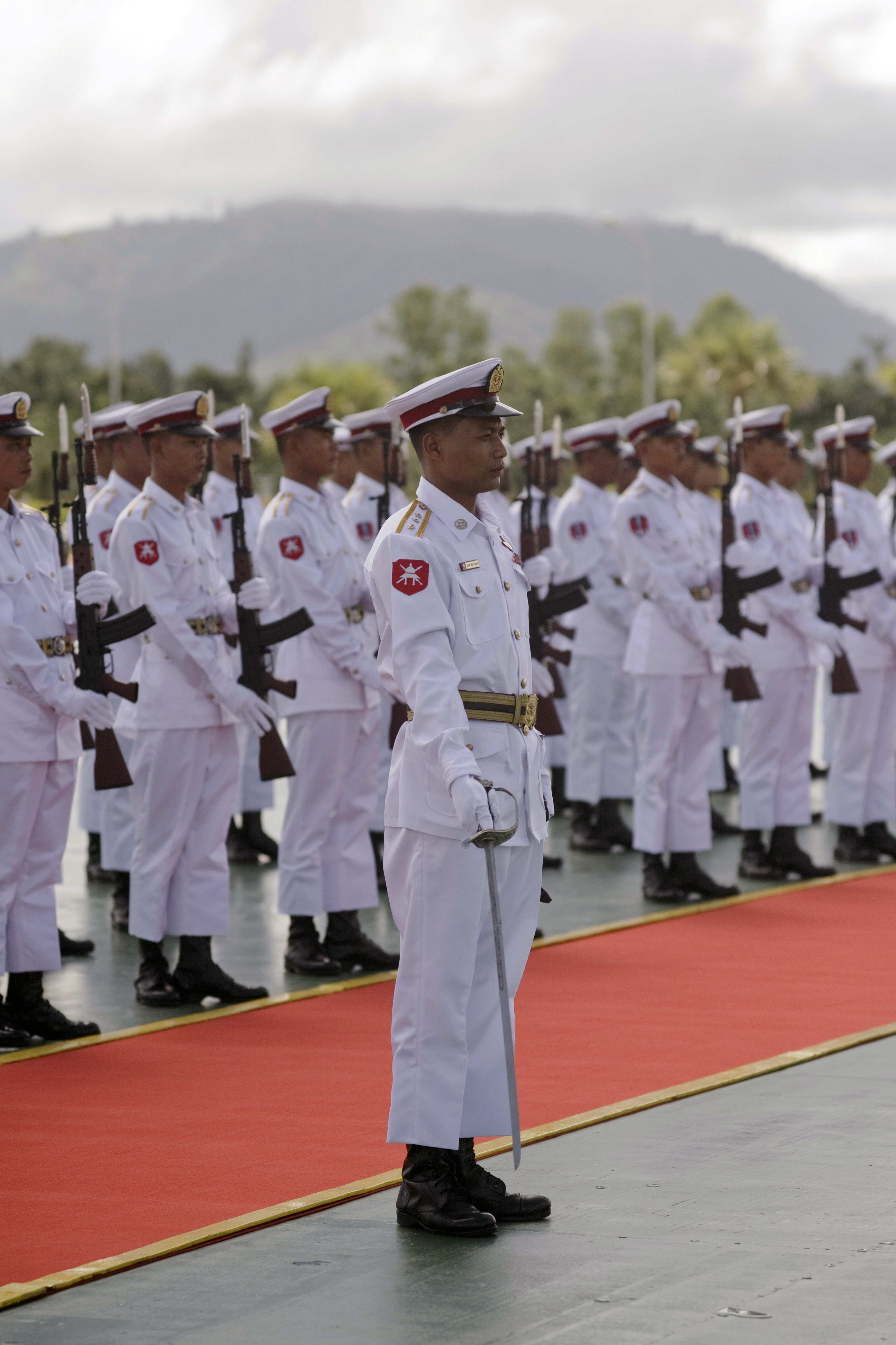 Myanmar Army personnel at Naypyidaw reception of Thai delegation in October 2010